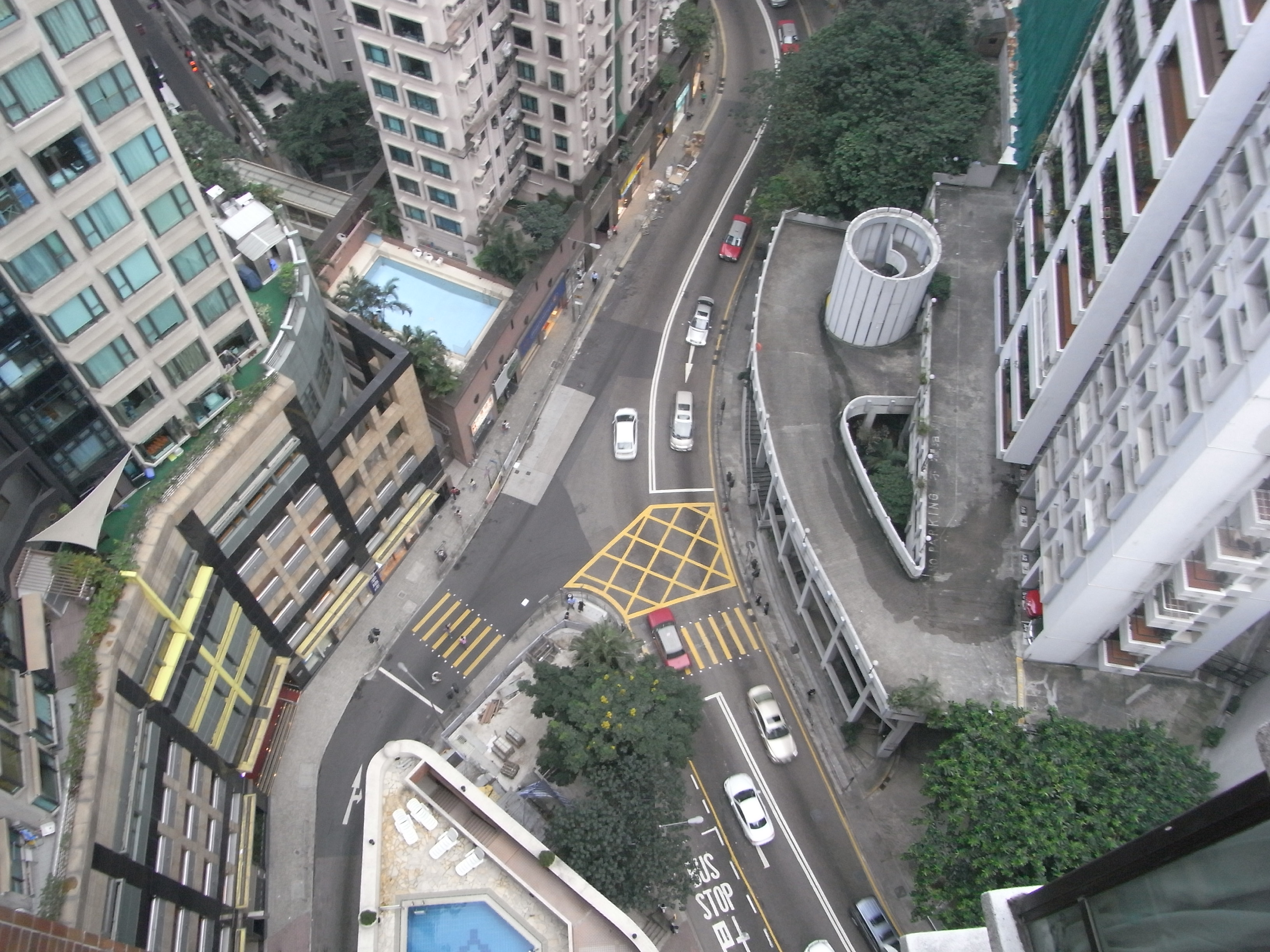 香港zh:羅便臣道2010年10月